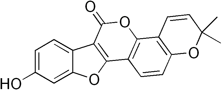 chemical structure of plicadin